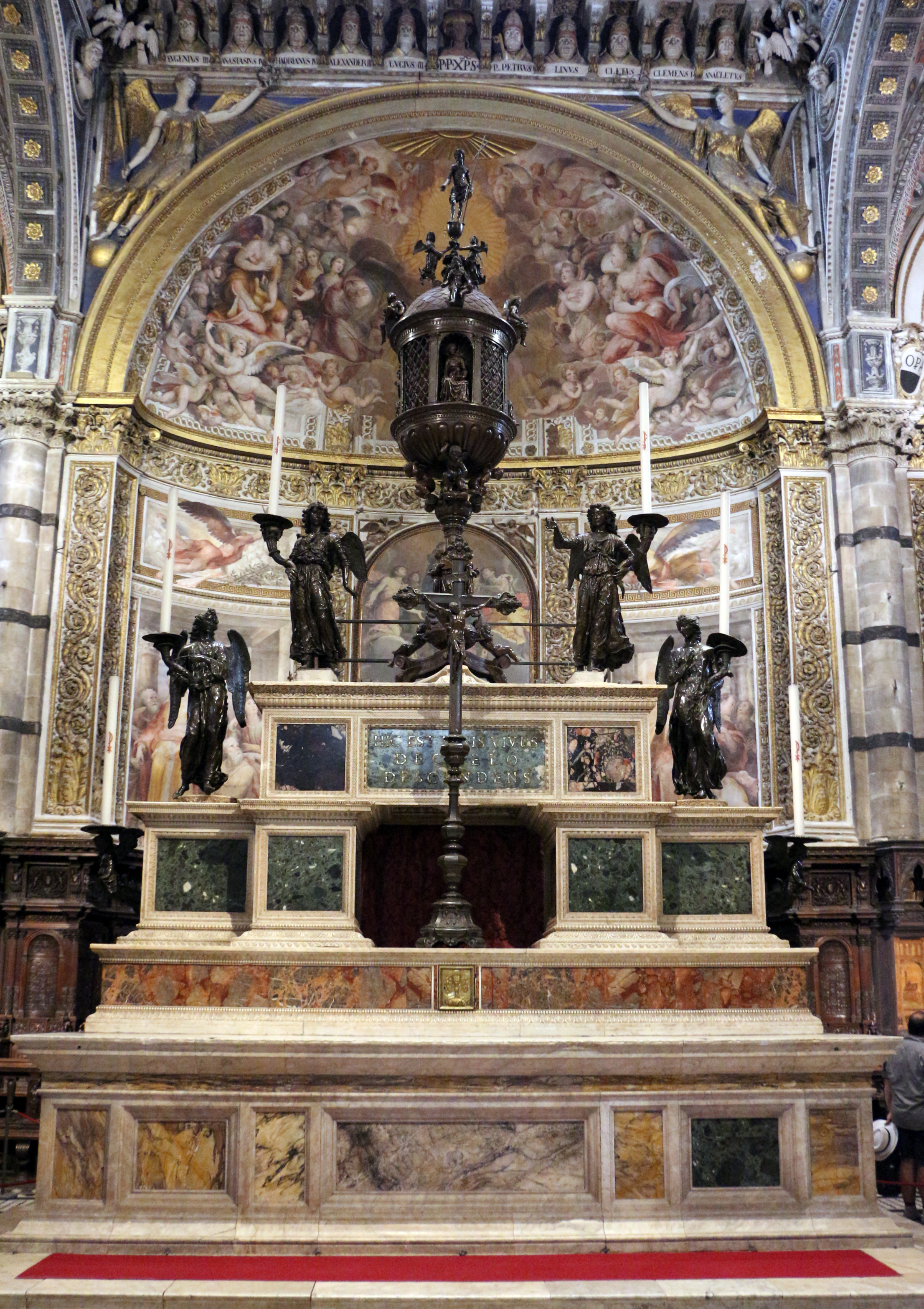 Cathedral (Siena) - Main Altar